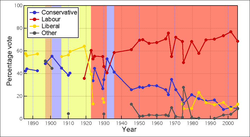 United Kingdom general election results for Sheffield Brightside constituency, 1885–2005. © Jeremy Atherton 2005.